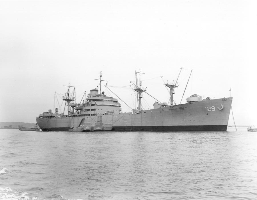 USS Graffias (AF-29) at anchor, date and place unknown. A US Navy photo now in the collections of the US Naval Institute